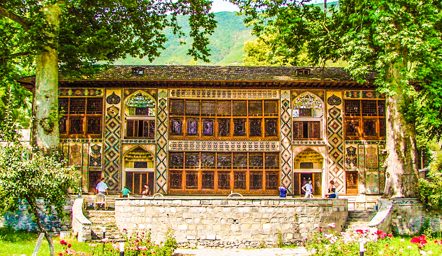 Sheki khan palace main façade